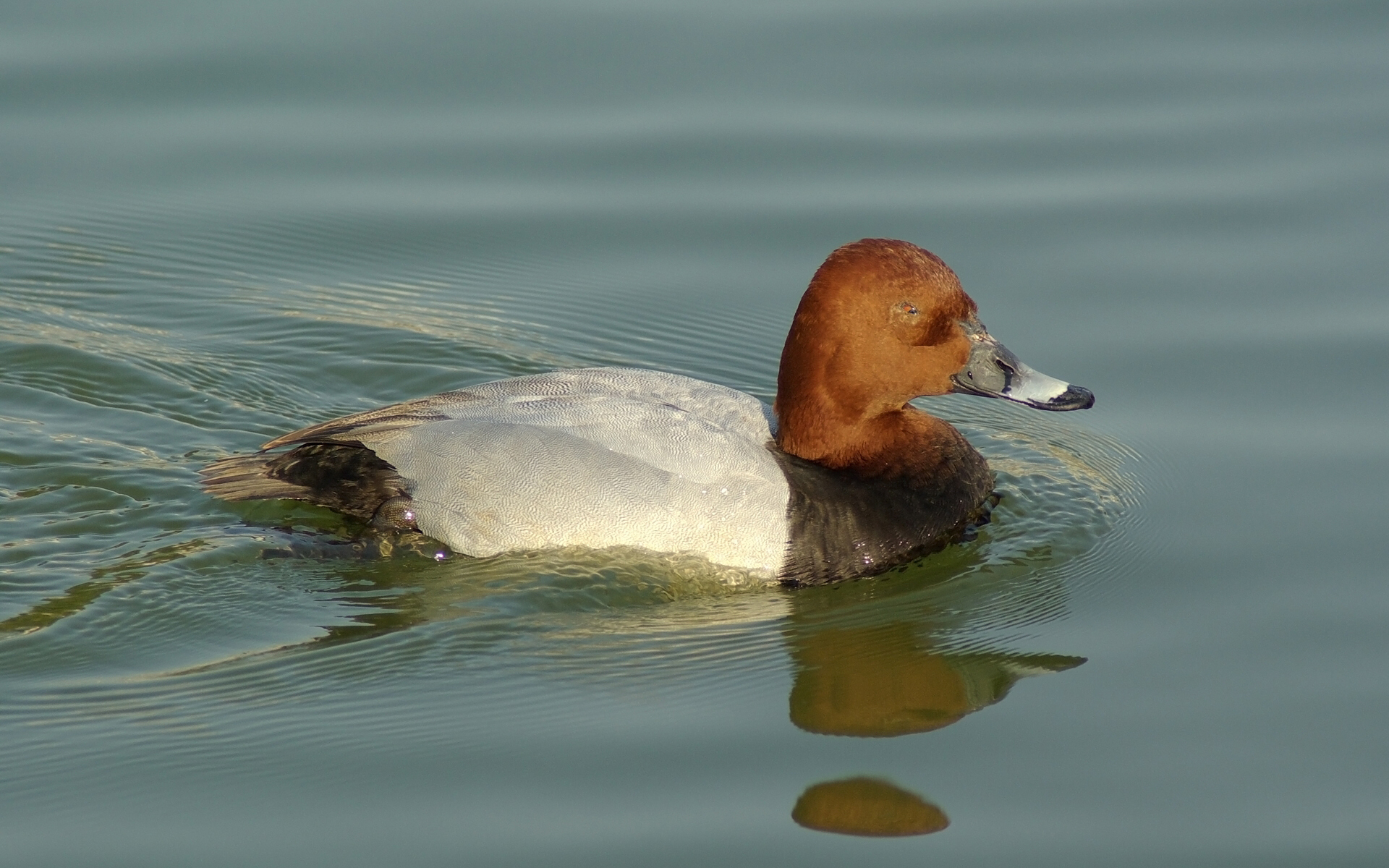 Common Pochard (Male)